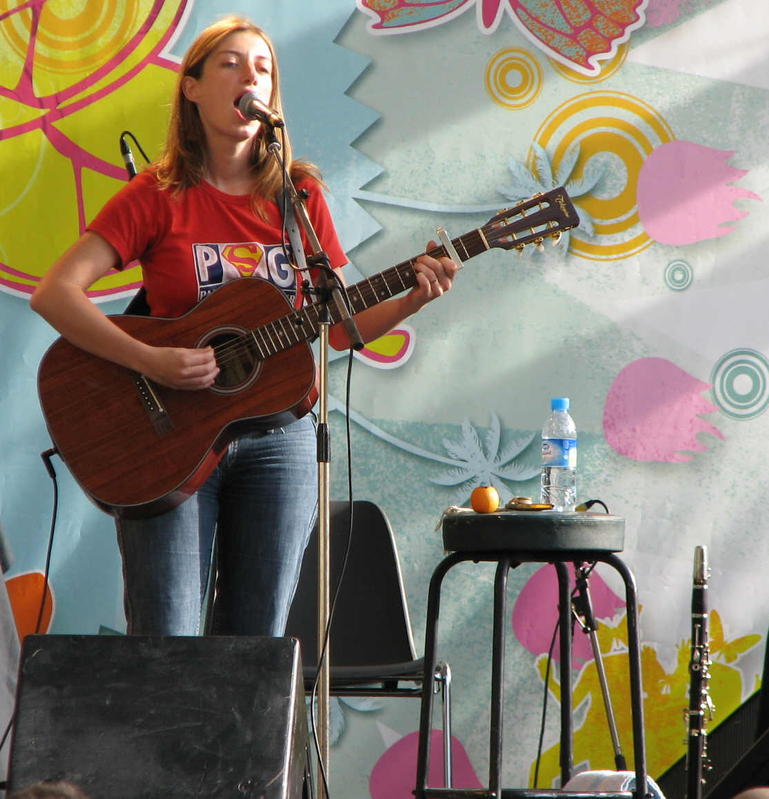 French singer Anaïs in concert, Paris